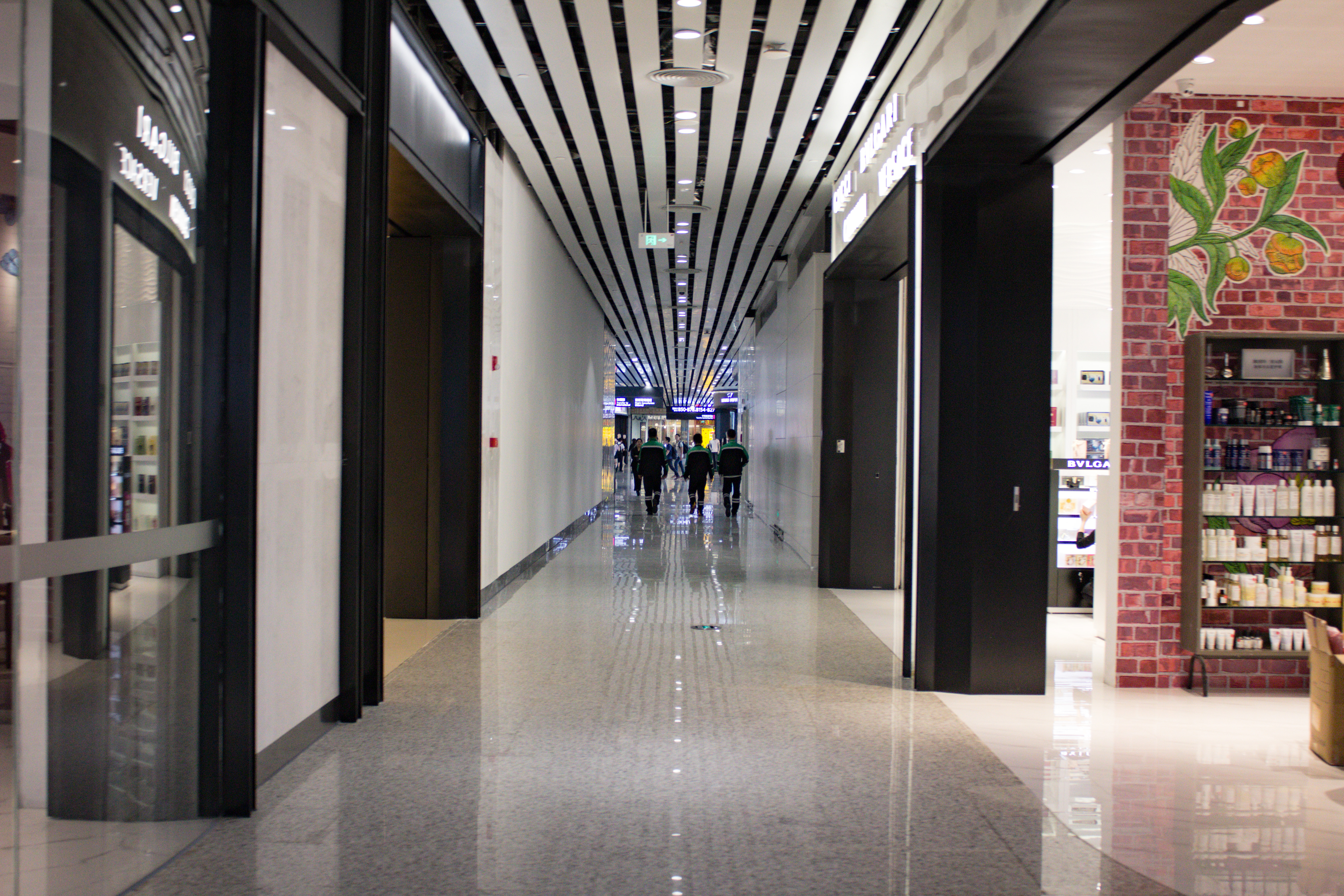 People walking down a hallway in Terminal 2 of Guangzhou Baiyun International Airport.